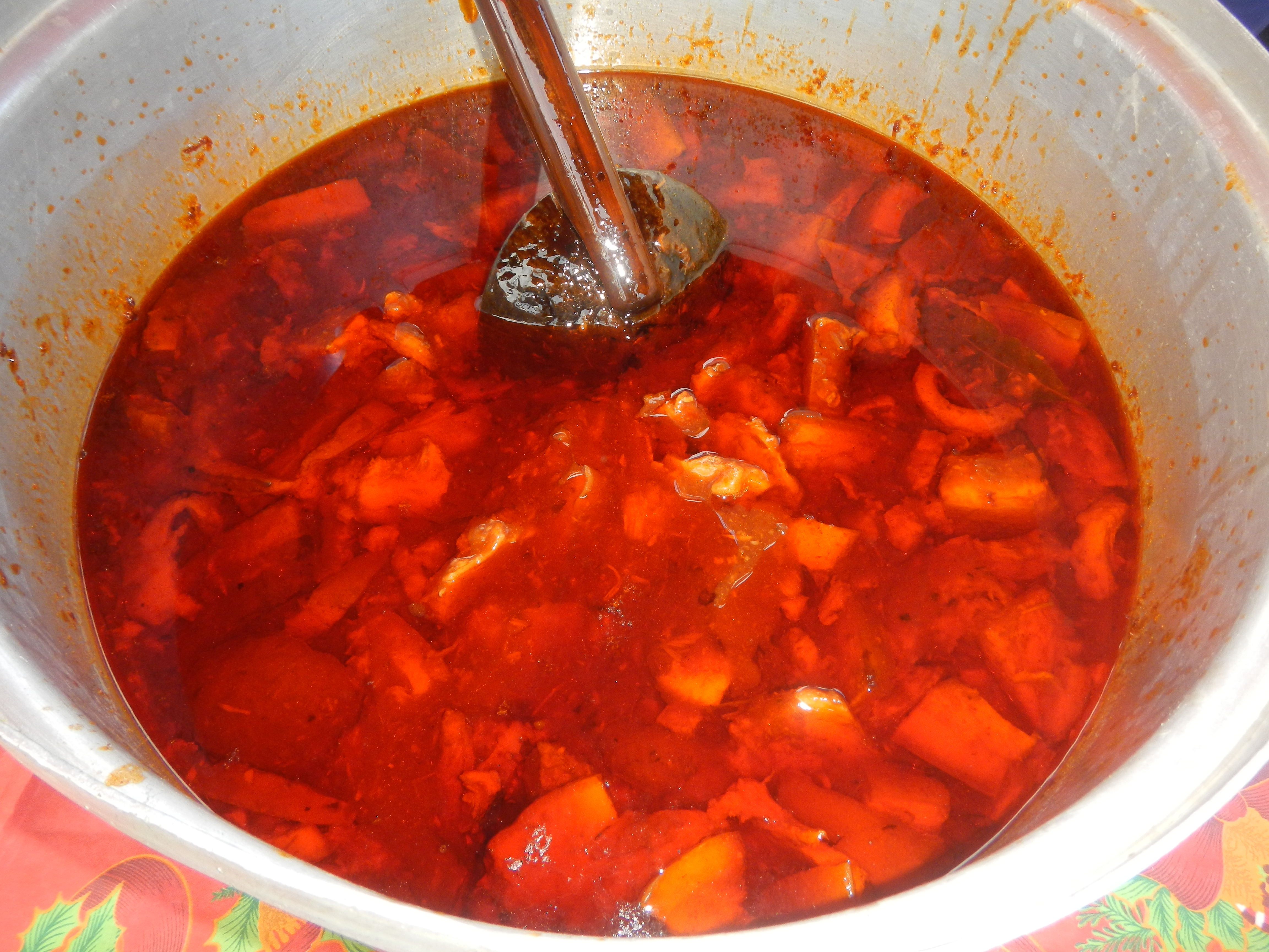 Food displayed for sale in Pampanga Kapampangan cuisine Santa Rita de Cascia "Apung Dita" Monument (Eco-Park, San Isidro Gasak, Santa Rita, Pampanga) Inaugurated on December 2, 2017 on the 16th Duman Festival (Eco-Park, San Isidro Gasak, Santa Rita, Pampanga) Barangay San Isidro 15°0'28"N 120°36'45"E Gasak 15°0'56"N 120°36'33"E from San Vicente 14°59'51"N 120°36'41"E Santa Rita, Pampanga (Note: Judge Florentino Floro, the owner, to repeat, Donor Florentino Floro of all these photos hereby donate gratuitously, freely and unconditionally all these photos to and for Wikimedia Commons, exclusively, for public use of the public domain, and again without any condition whatsoever).